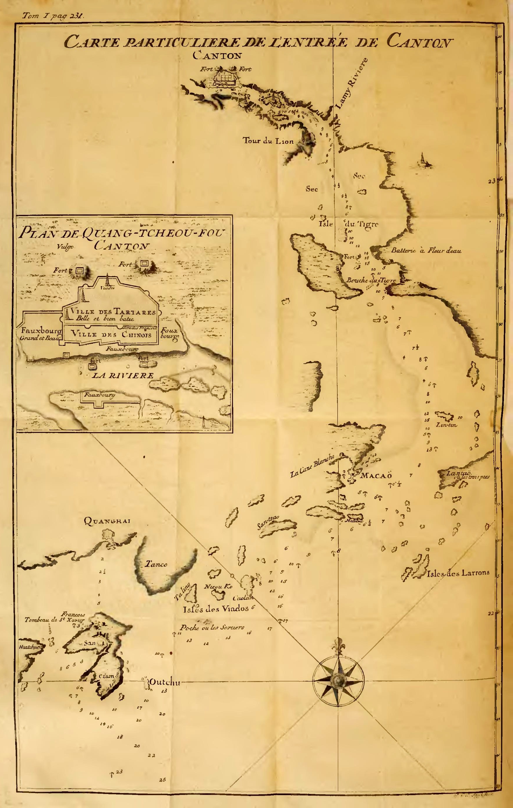 A map of the mouth of the Pearl River in Guangdong, China, with an inset map of Guangzhoufu (廣州府). An engraving from the Dutch edition of Du Halde's Description of China, Vol. I, p. 231.